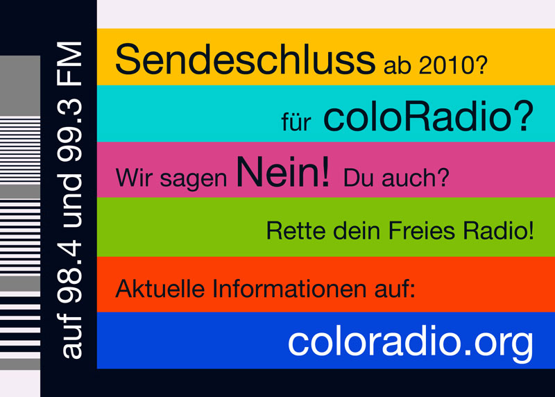 coloRadio sticker 2010, by Antje Meichsner